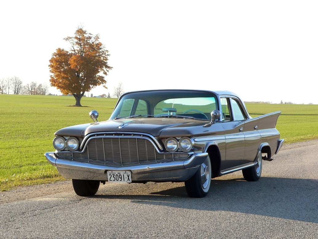 4-door sedan; engine: 361 ci hemi. Taken in Guelph, Ontario, Canada.